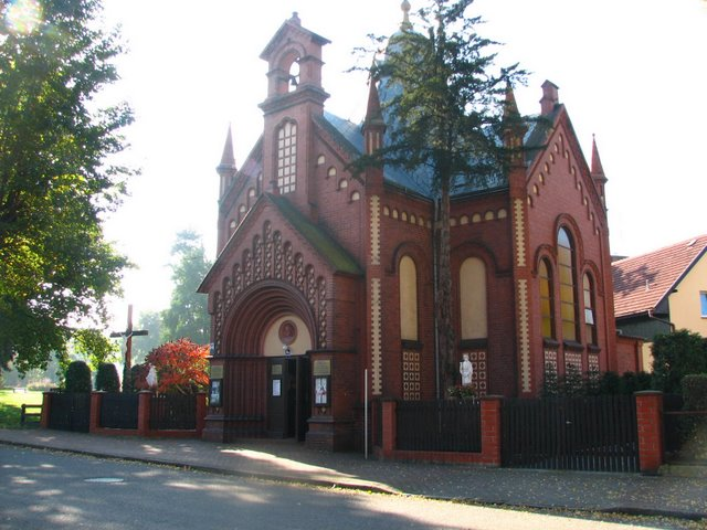 Polish Catholic Church in Zagan